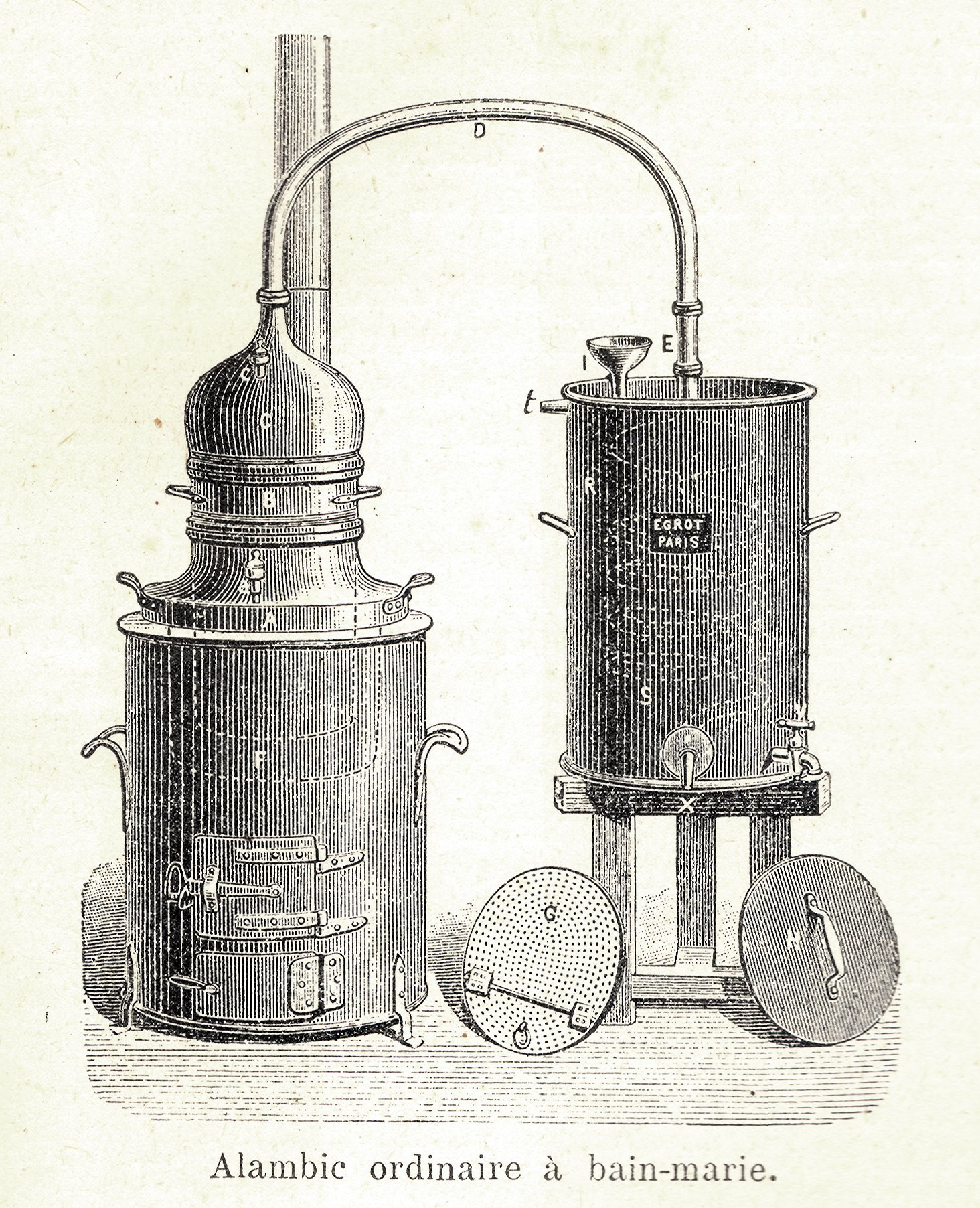 Still. Picture from "Dictionnaire encyclopédique de l'épicerie et des industries annexes" by Albert Seigneurie, édited par "L'Épicier" en 1904, page 33.